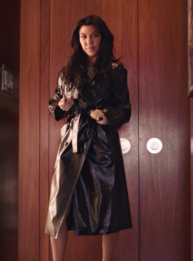 Kourtney Kardashian for a GQ phostohoot in 2018